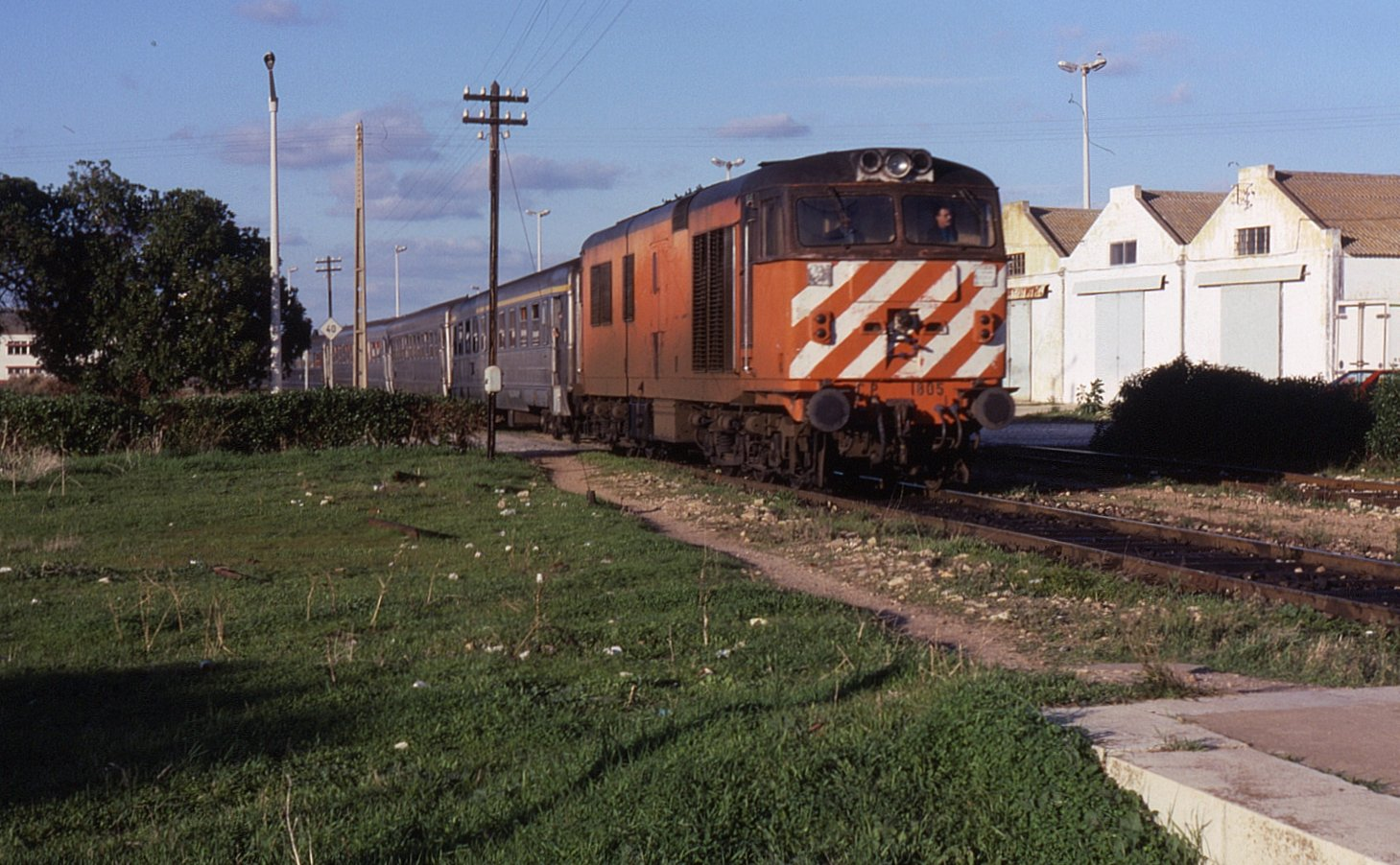 10 of these English Electric built locos very similar to British Rail class 50s were used in Portugal until the 1990s working services on the line out of Barreiro on the south side of the River Tagus from Lisboa. Here 1805 is seen reversing away from the the buffer stops prior to running around having worked its train, 08:25 from Barreiro. Date taken, 27 November 1990.